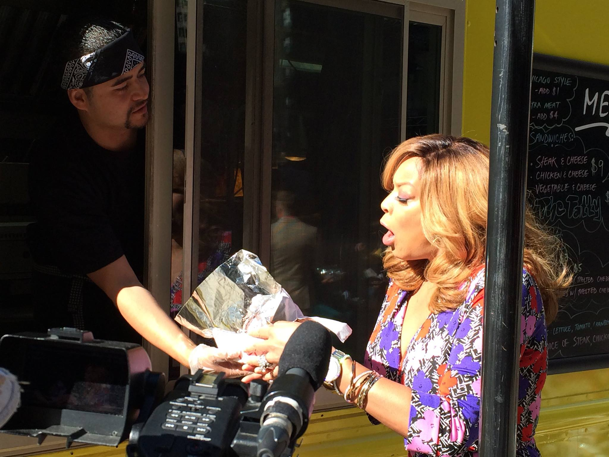 Television personality Wendy Williams previewing the Chicago Food Truck Fest on Fox News in Chicago.